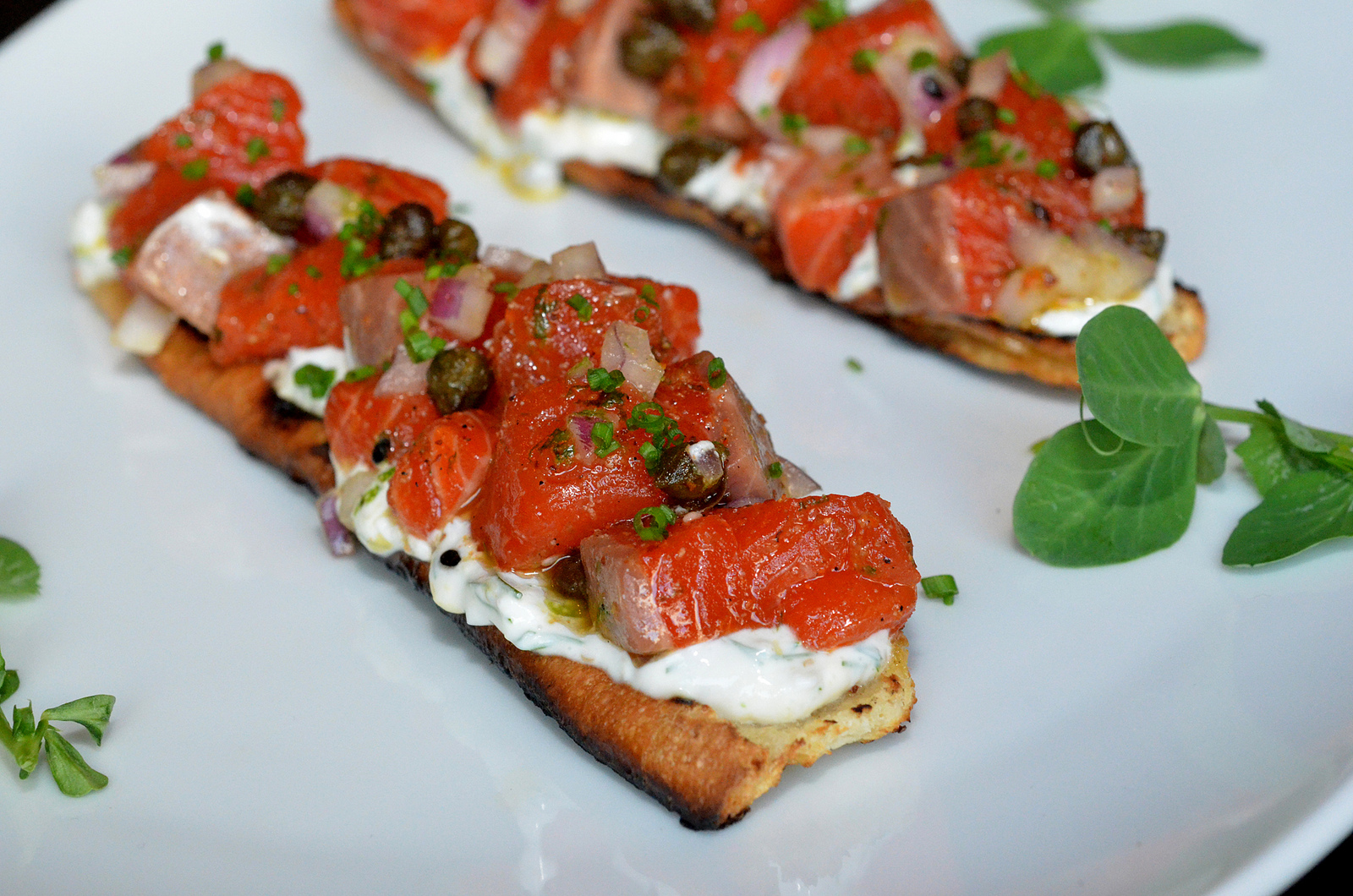 Bristol Bay Salmon Tartare_0440